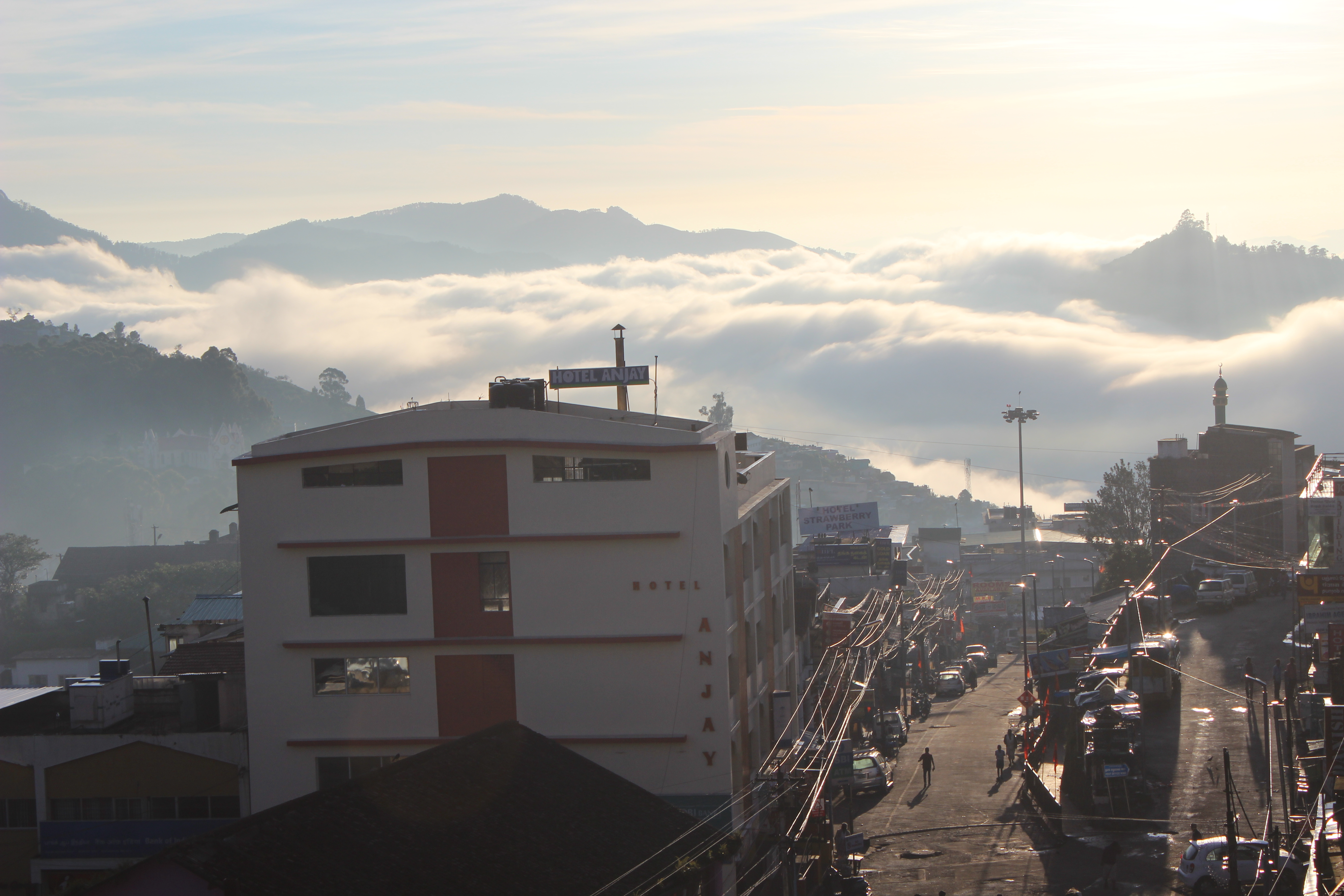 Morning Mist in Kodaikanal seen at Sunrise.